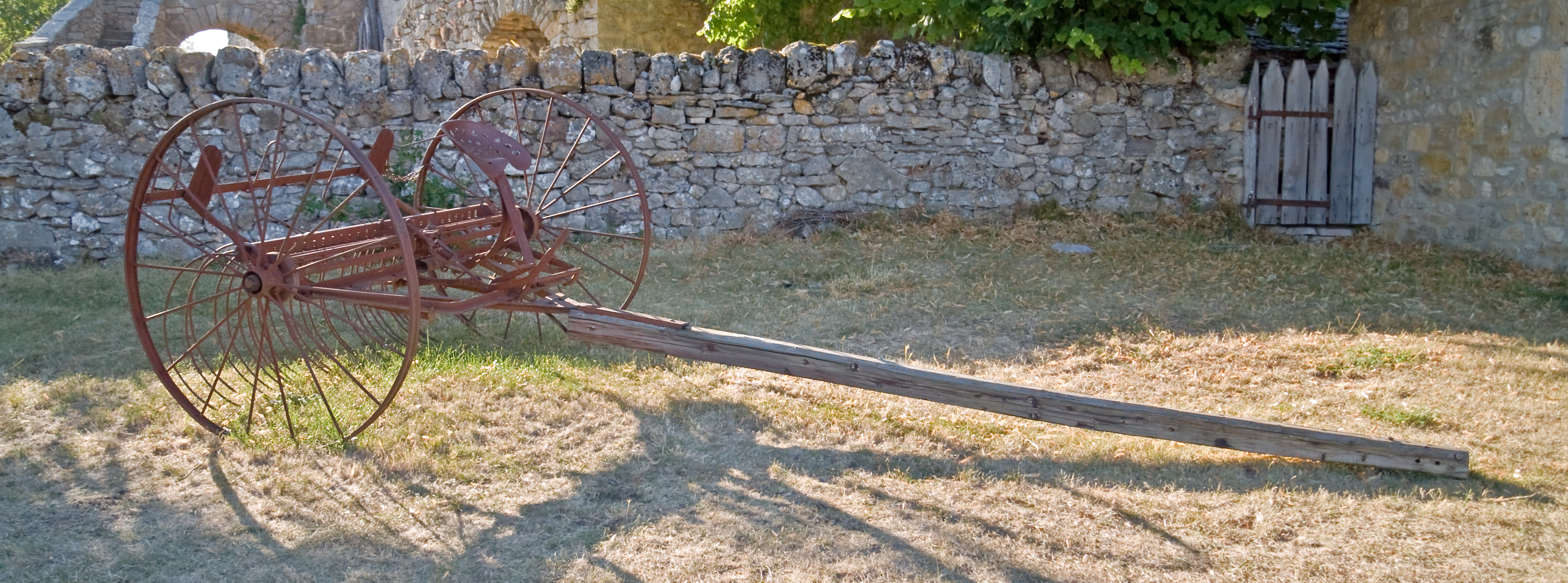 An old dump hay rake exhibited at the ecomuseum of Hyelzas (Hures-la-Parade, Lozère, France).